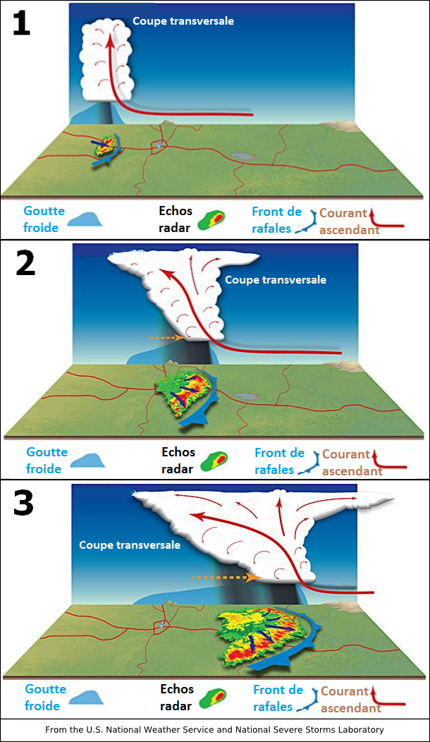 French version of How a derecho bow echo develop